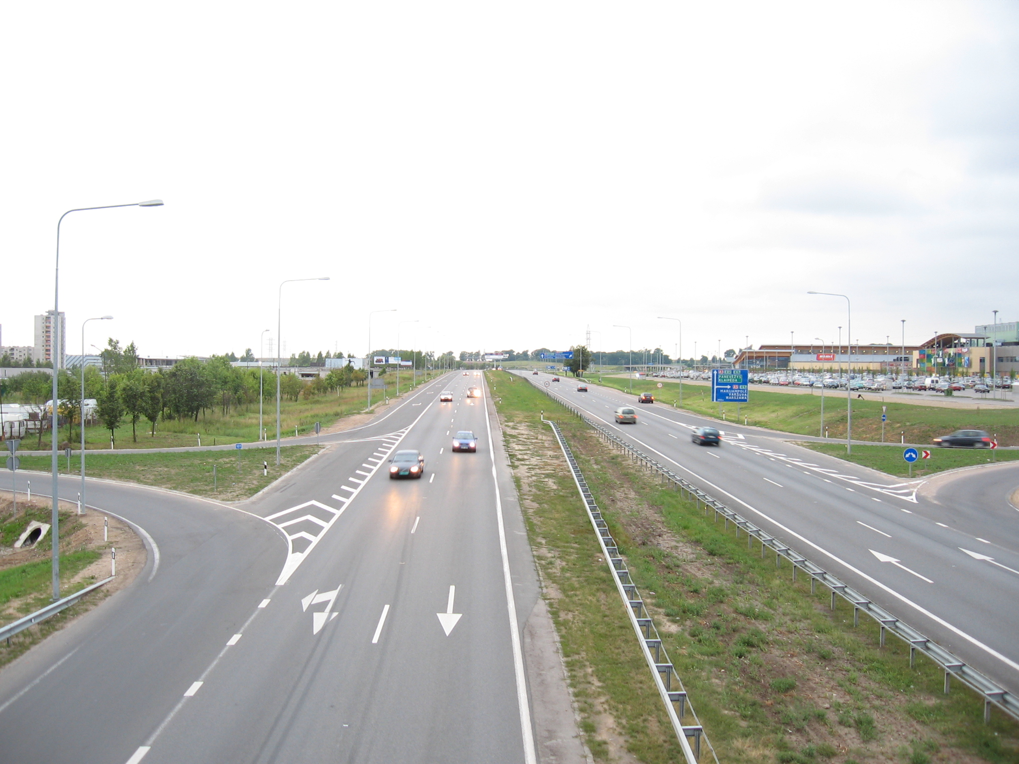 Highway A1 (Vilnius-Kaunas-Klaipeda) by superstore "Mega", Kaunas (Lithuania).